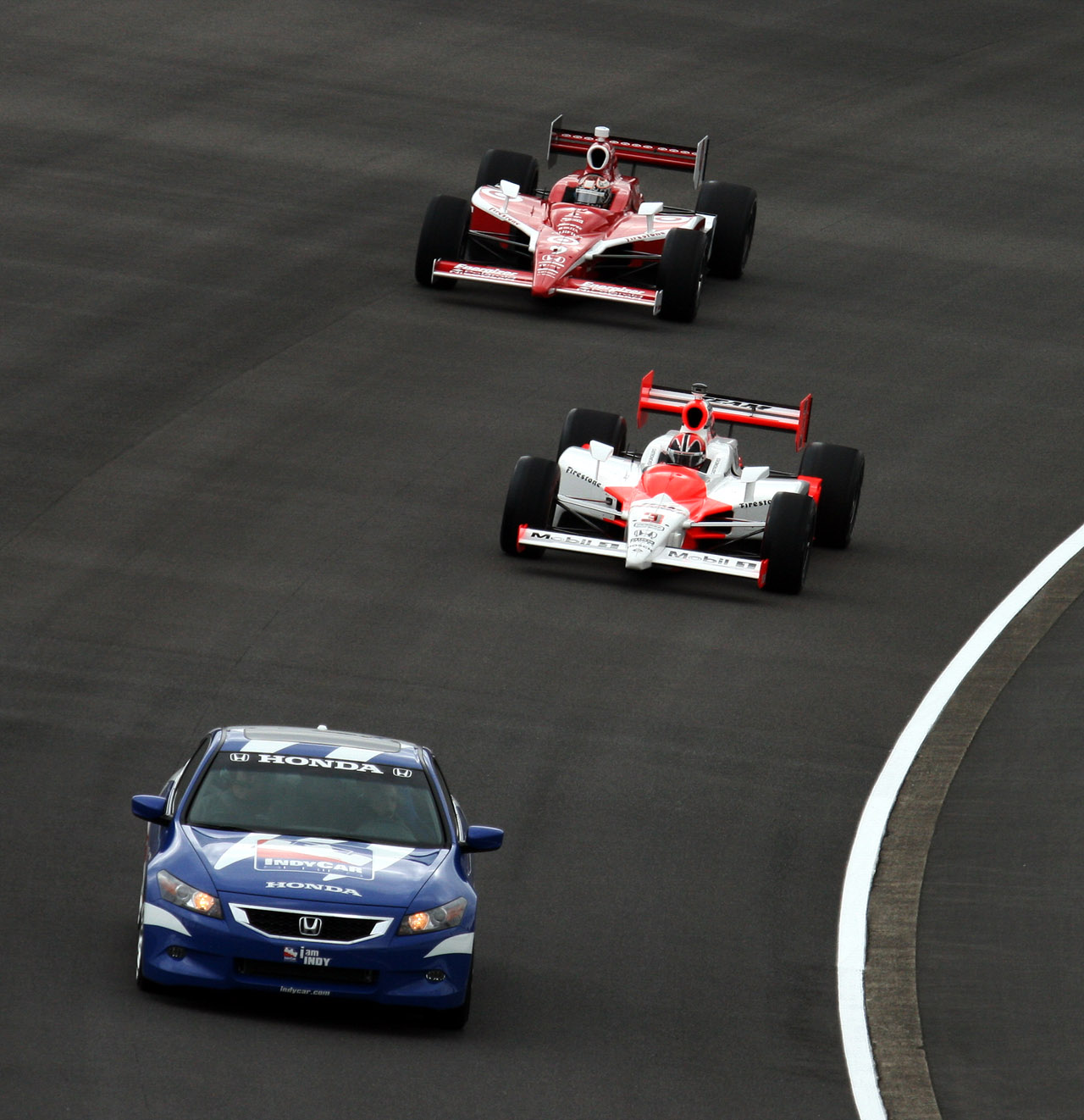 Indy Racing League 2008 Rd.3 Indy Japan 300: Safety car led the race. Hélio Castroneves (#3, Penske) and Scott Dixon (#9, Chip Ganassi)